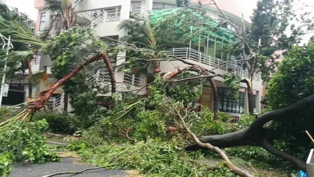 the ZH1Z campus was destroyed by Hato